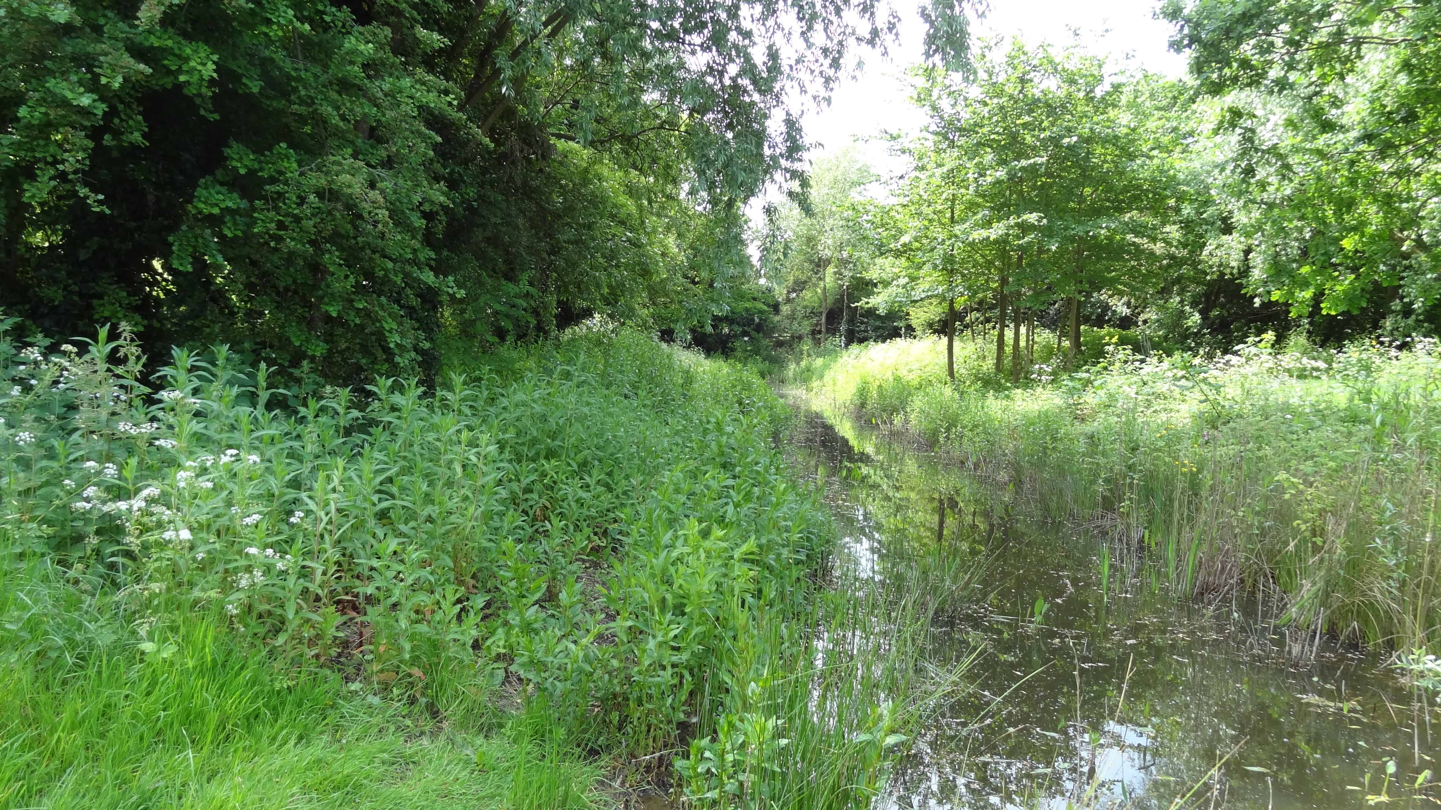 Northolt Manor, nature reserves and Scheduled Monument in Northolt, London